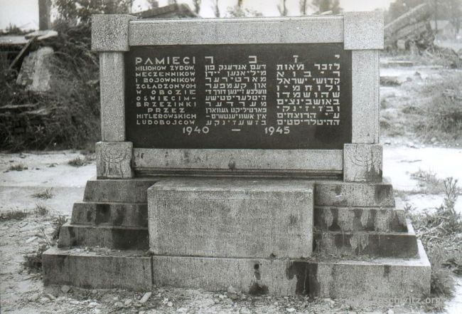 The monument remembering Jewish victims of KL Auschwitz at the end of the unloading ramp in Birkenau.